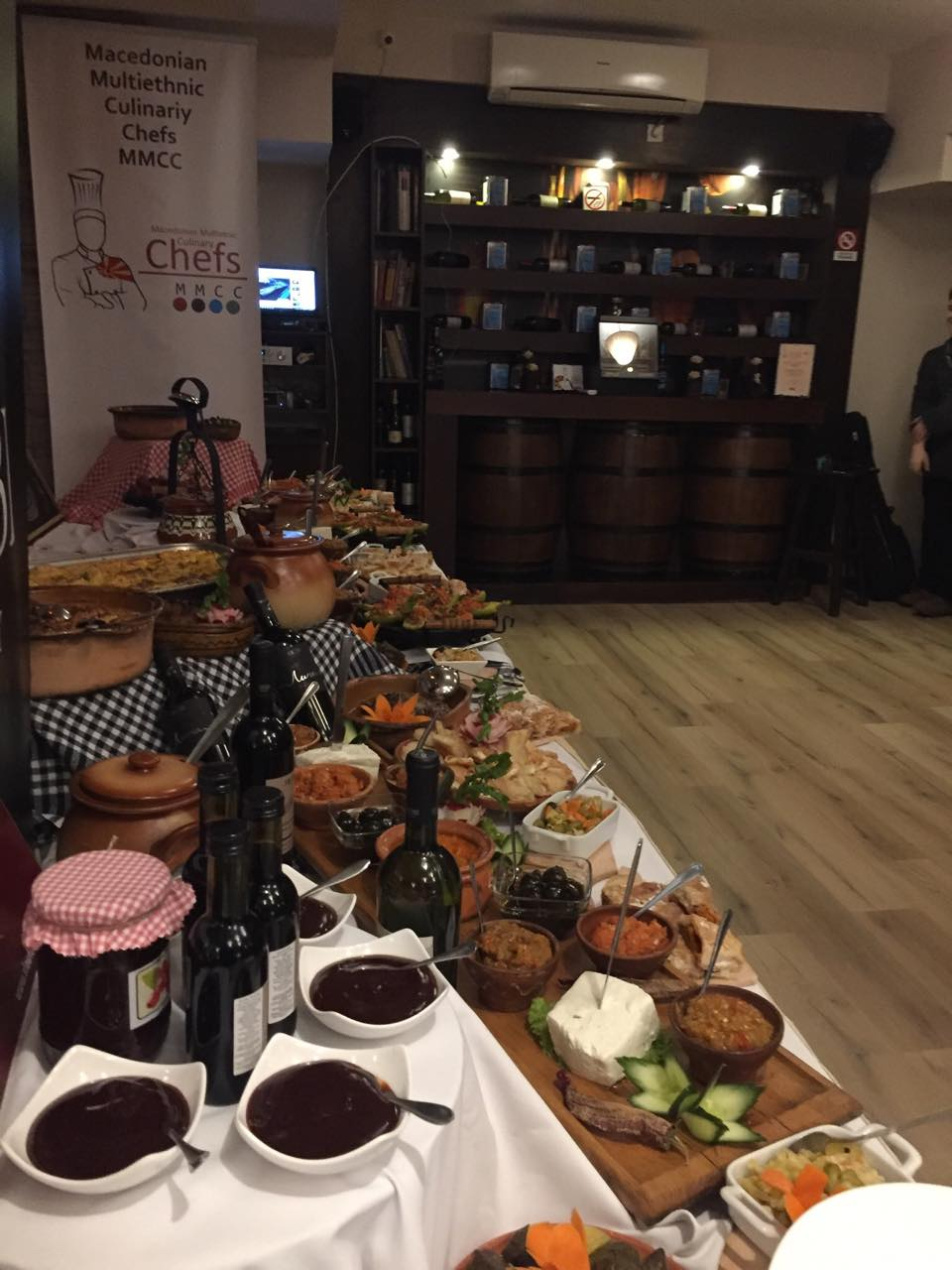 Macedonian traditional cuisine